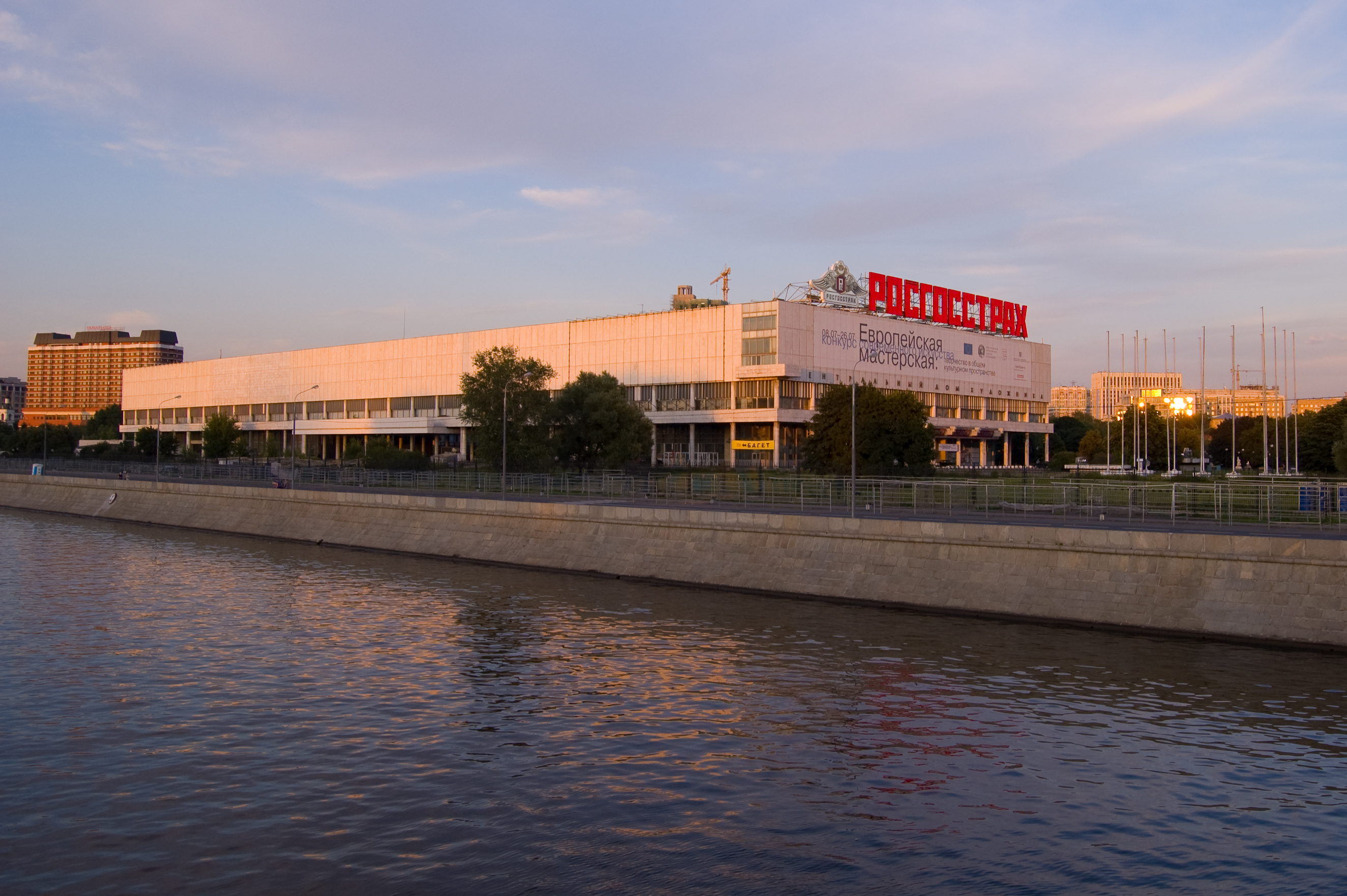 The Central Artists' House / New halls of the Tretyakov gallery, Moscow